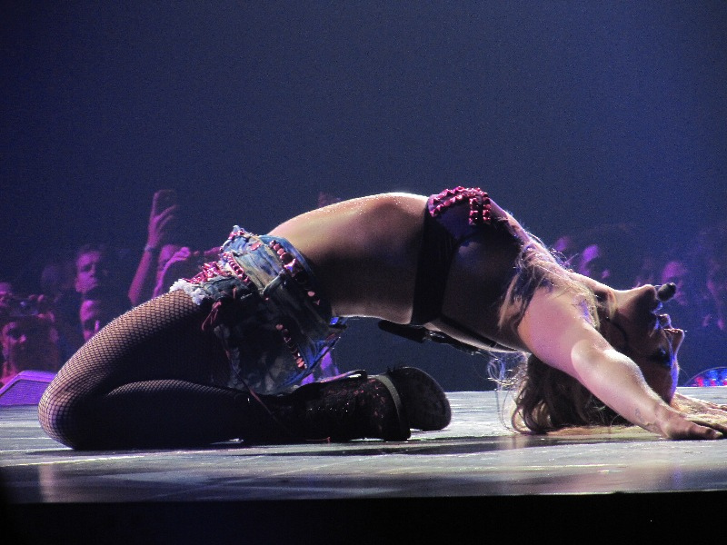 Britney Spears live.